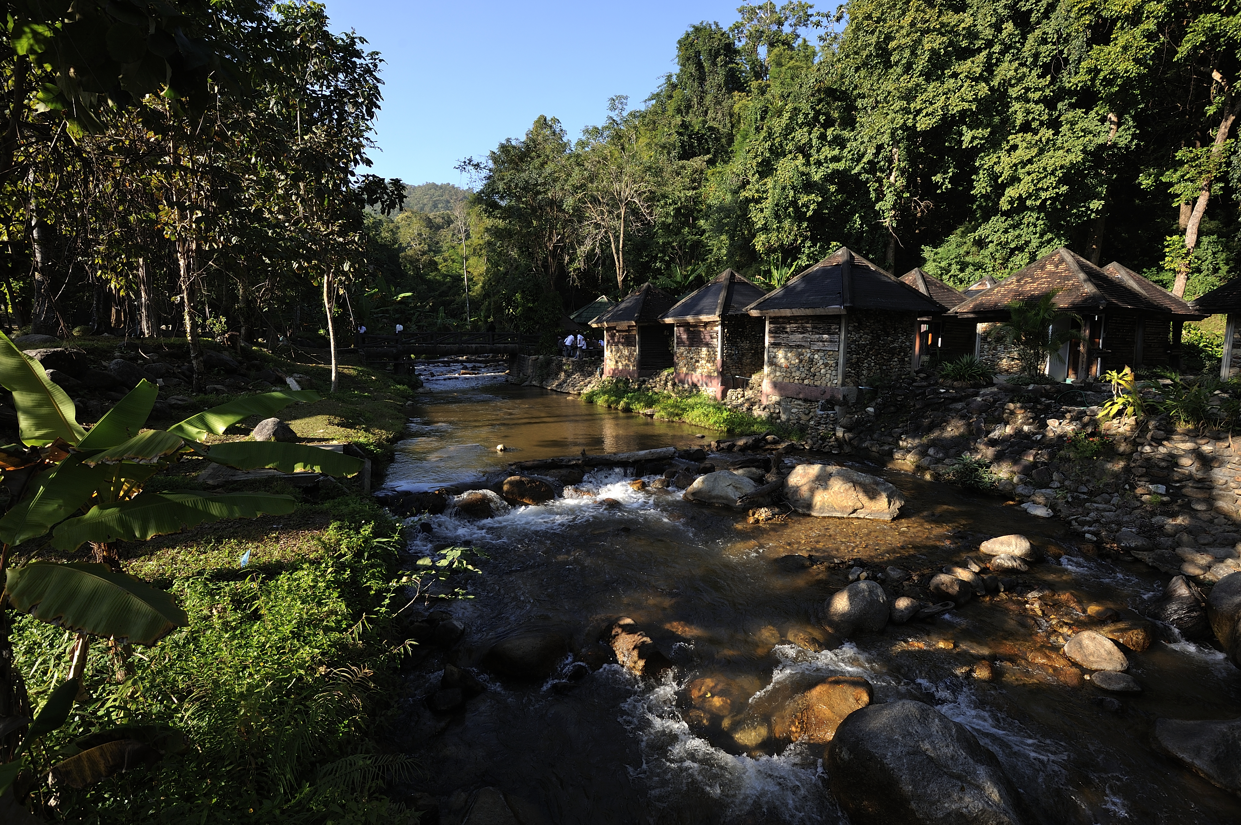 The word “Mon” means hill and “Shae” means city. So, Mon Pya Shae of Lam Parng City could mean the chief hill of the city. Mon Pya Shae is located in Tumbol Pichai, Muang District, and is in the north east of Lam Parng Province. It is a park area. -In this area there is Mon Kai Khia where Mon Pya Shae Temple is located. According to the history it was built in B.E. 2353 (1810). The legend indicated that it was the place for the practice of the dharma of 5 hermits. Formerly in this temple there was a pagoda on the top of the hill. It was believed that this pagoda was the place containing Buddha's relics and later on it was destroyed during the World War II. It was reconstructed in B.E. 2498 (1955). There is a worship ceremony every year in the 9th month of the north on the night of the Raem 8th (Cultural Encyclopedia of Northern Thailand, Volume 10).